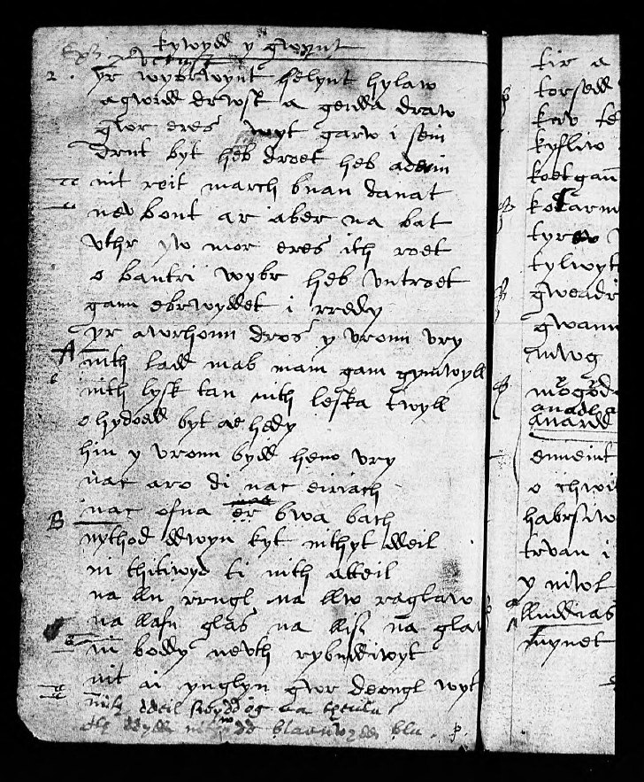 Folio 3v of Peniarth MS 49 (Barddoniaeth Dafydd ap Gwilym). In July 2010, the Peniarth Manuscripts Collection was included on the UNESCO UK Memory of the World Register.